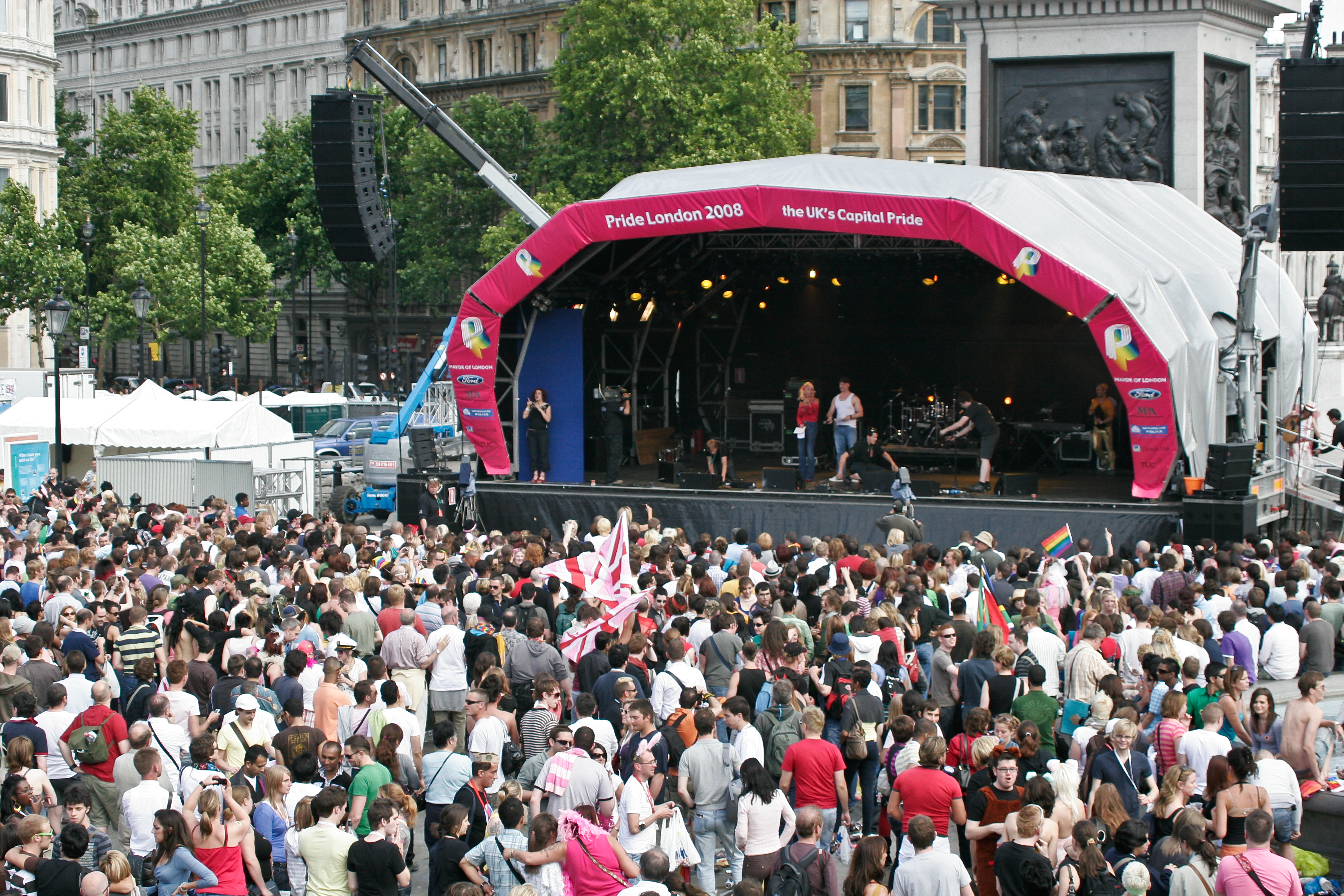 Pride London 2008, Main Stage in Trafalgar Square